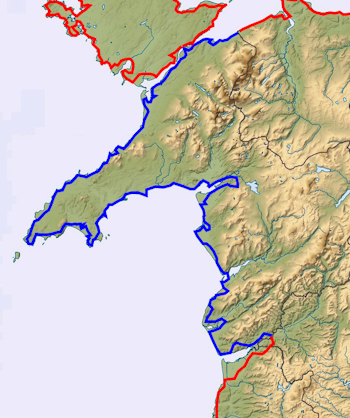 3 Arfon Meirionnydd - The Wales Coast Path goes around the coastline of Wales. It can be divided into sections or shorter paths